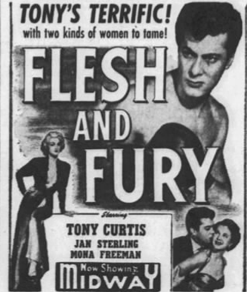 Midway Theater advertisement for the American drama film Flesh and Fury (1952) - 30 Mar. 1952 Morning Call, Allentown PA